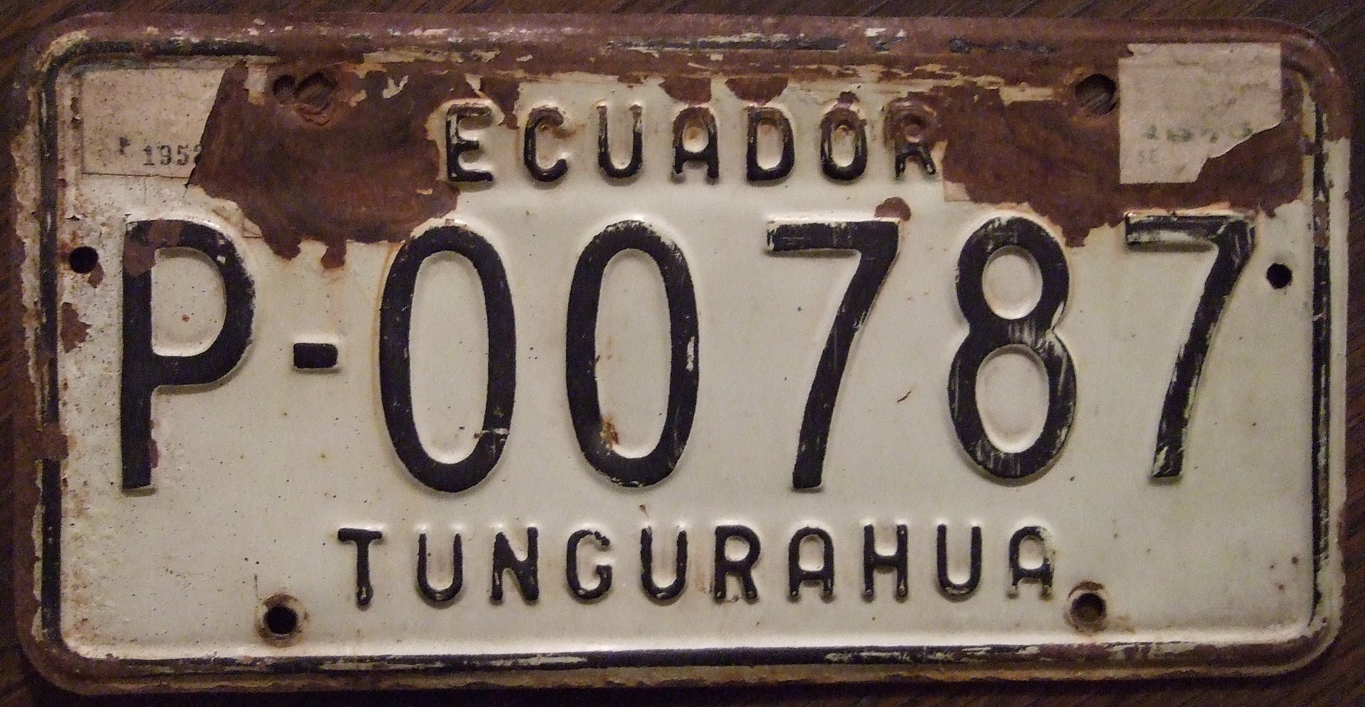 Black on pale green Ecuador license plate low number #P-00787.